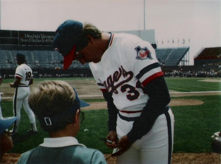 Dave Rozema at Texas Rangers/Eckerd Drugs Camera Day at Arlington Stadium, Arlington, Texas Sunday, April 28, 1985.